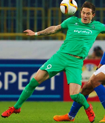 Nolan Roux